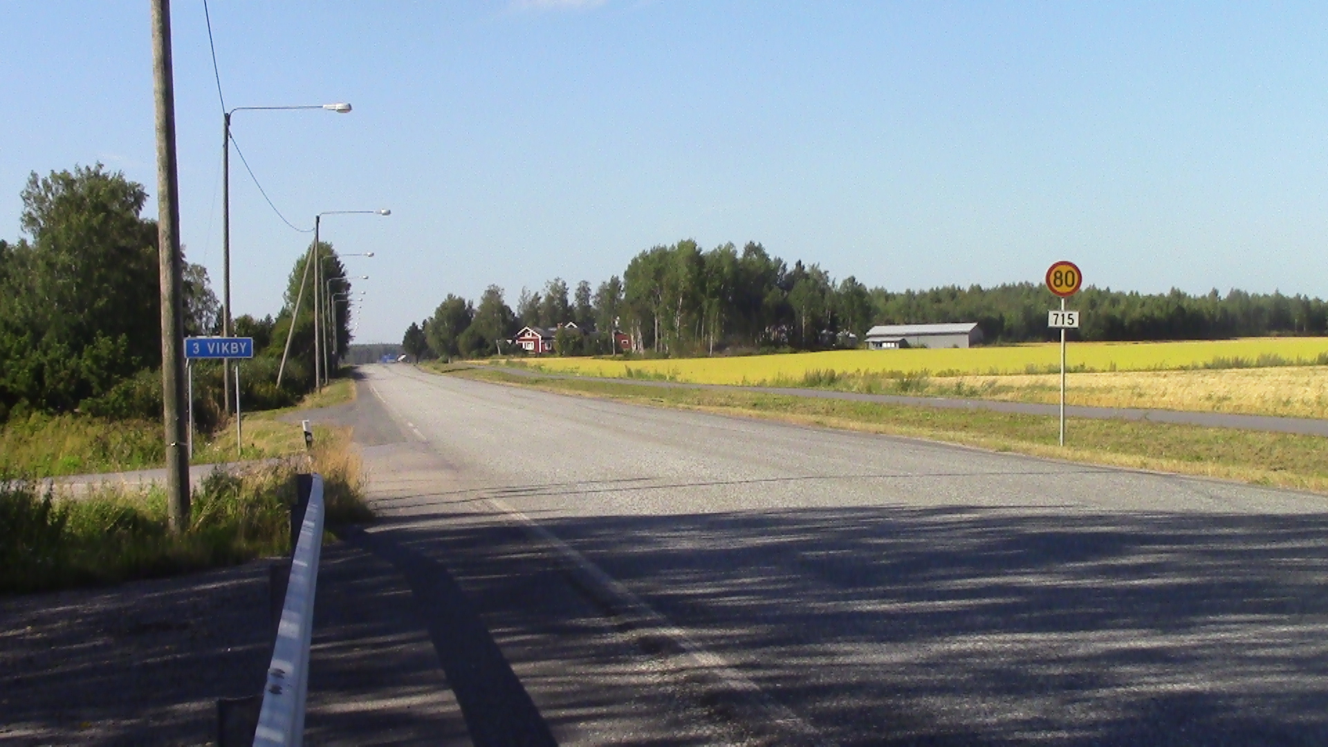 Finnish regional road 715 at Vikby road crossing in Korsholm. The road is part of an old route of national road 3.